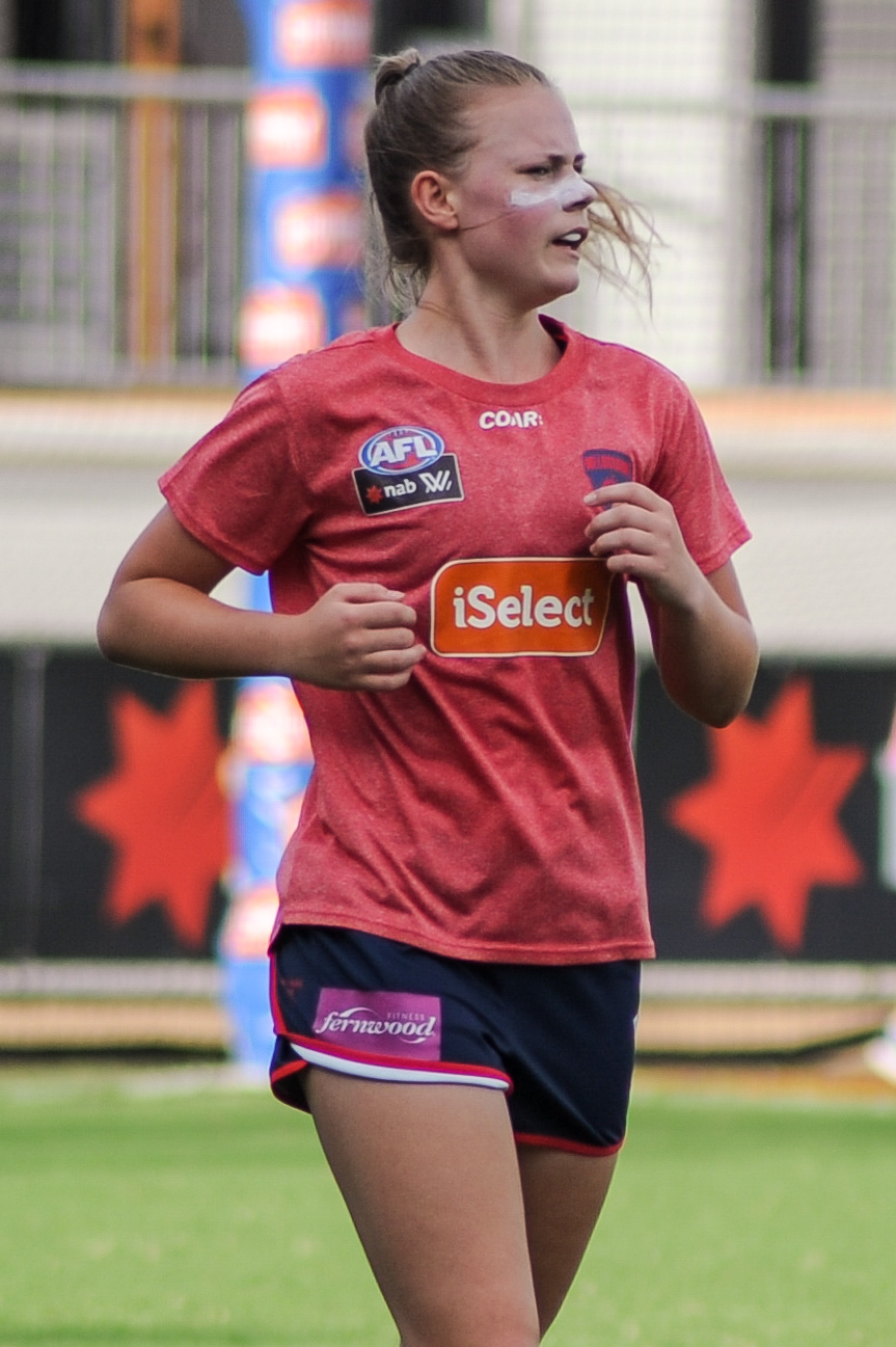 Ainslie Kemp warming up prior to the AFL Women's round six match between Adelaide and Melbourne on 11 March 2017 at TIO Stadium in Darwin, Northern Territory